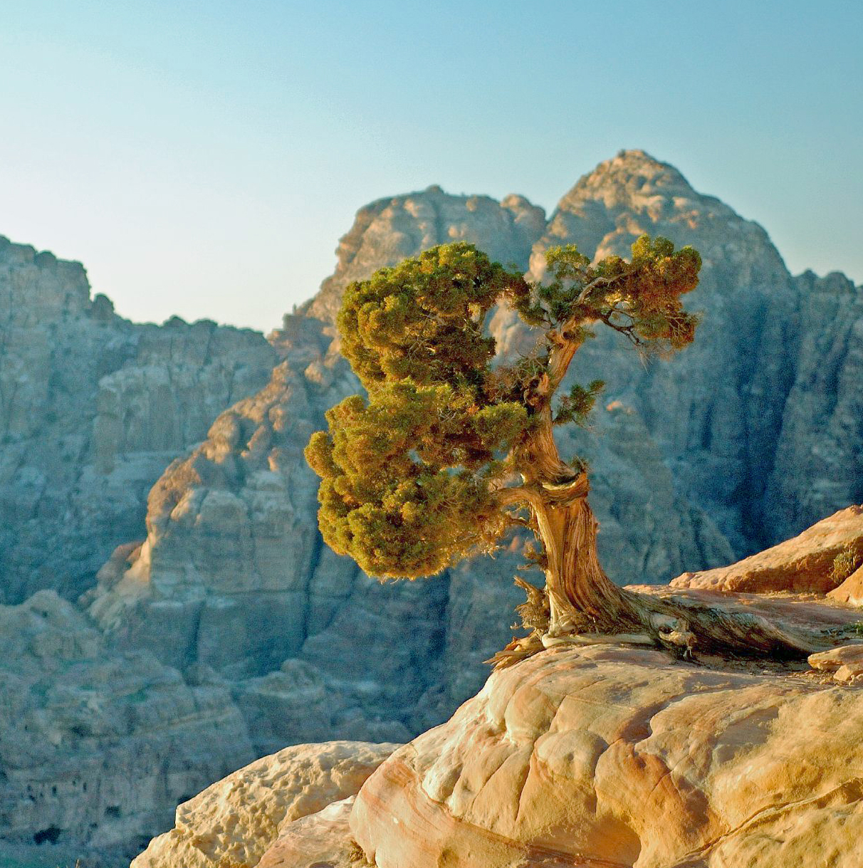 Juniperus phoenicea, Wadi Musa, Petra, Jordan.